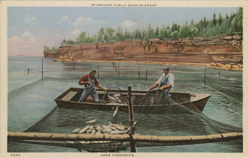 Milwaukee Public Museum Group, Lake Fisheries